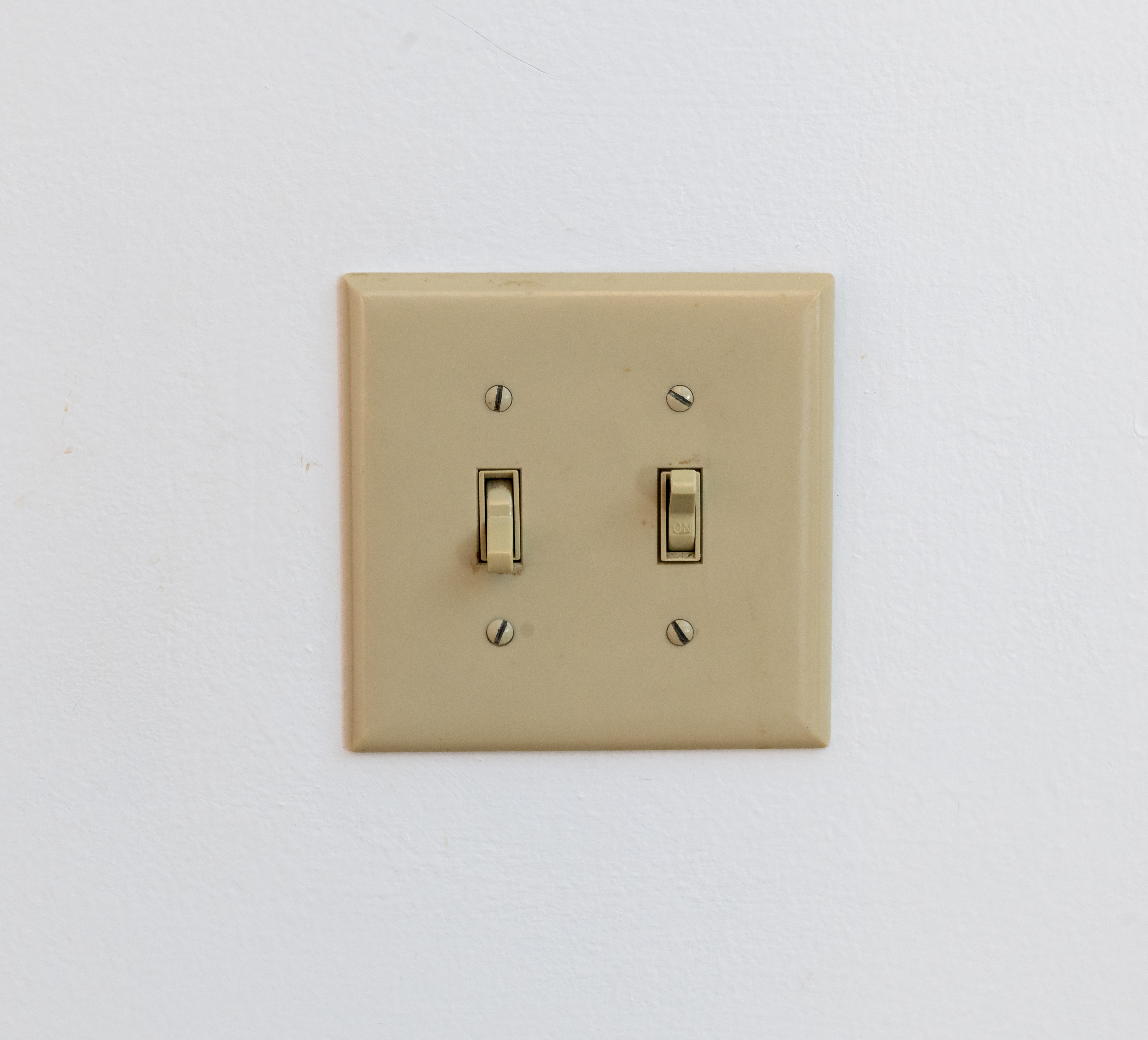 Beige Double Toggle Light Switch